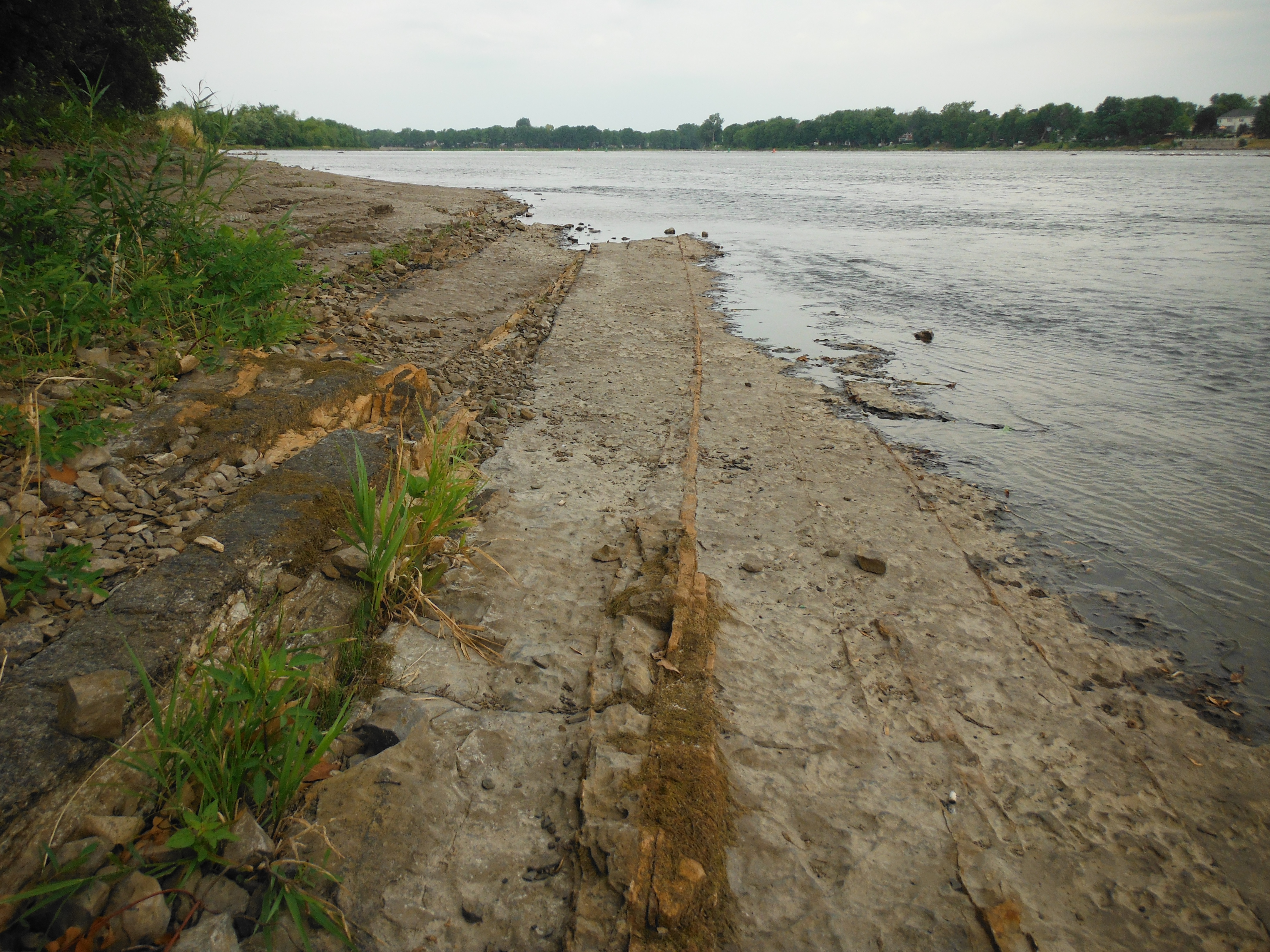 At the shoreline of whitehorse rapids there is visible stratum of different color in the rock and the orange color is in a straight line.